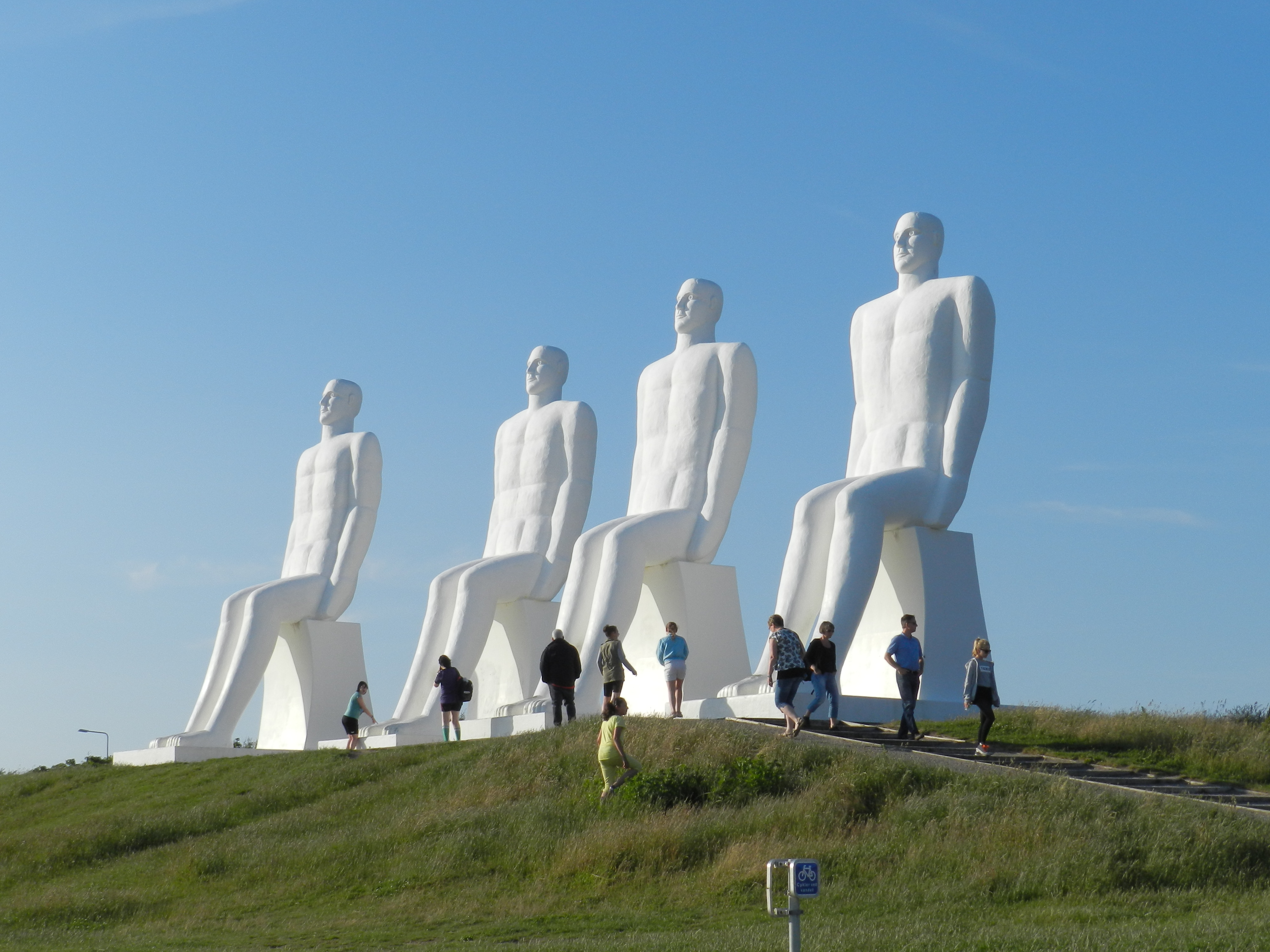 Men at sea, at Esbjerg, Denmark